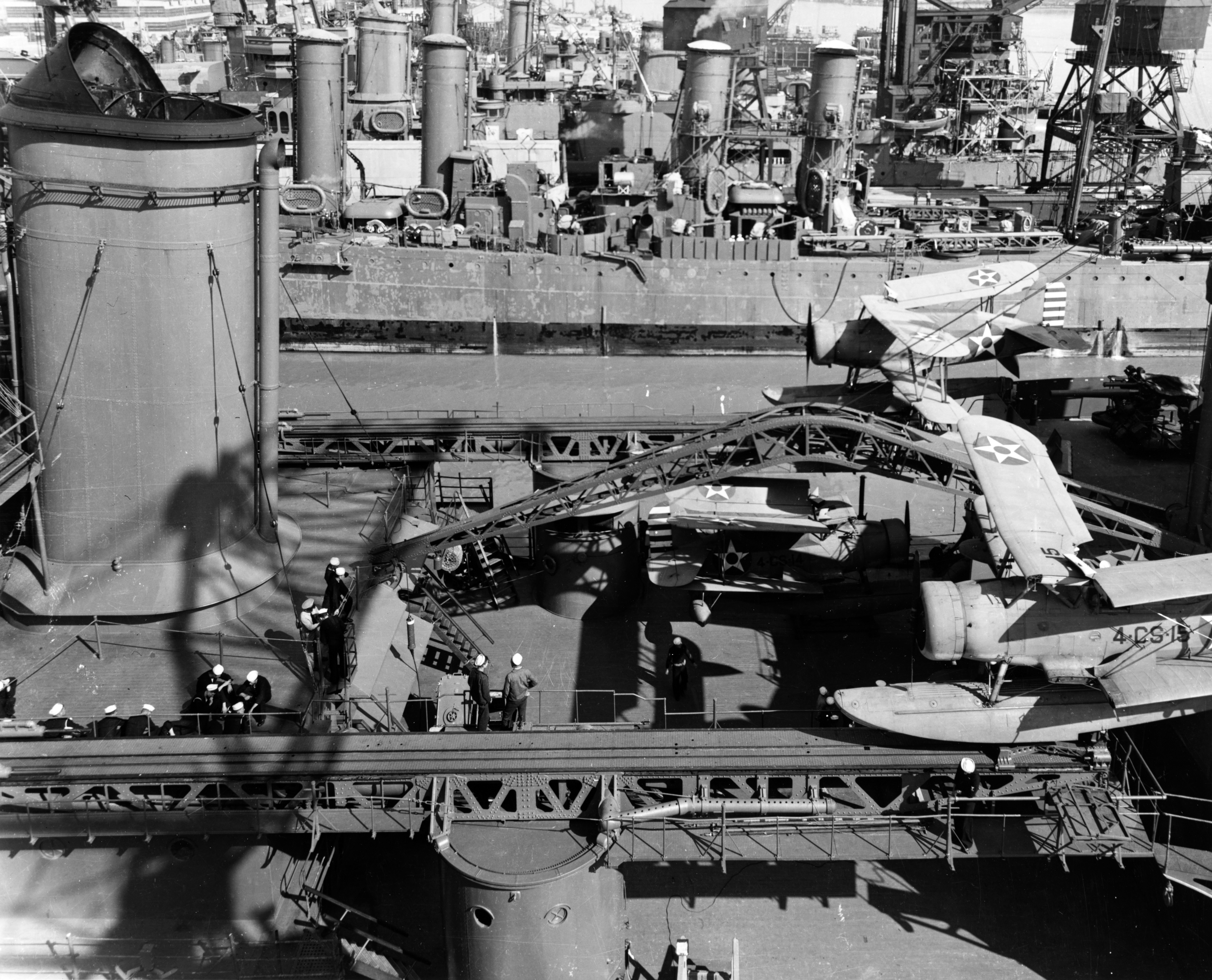 Closeup view of the well deck area, from the port side, of the U.S. Navy heavy cruiser USS Indianapolis (CA-35) at the Mare Island Naval Shipyard, California (USA), 19 April 1942, following overhaul. Note her forward smokestack, catapults, and the Curtiss SOC Seagull aircraft. The light cruiser USS Raleigh (CL-7) is in the background. Raleigh had beenn torpedoed during the attack on Pearl Harbor. Photograph from the Bureau of Ships Collection in the U.S. National Archives.